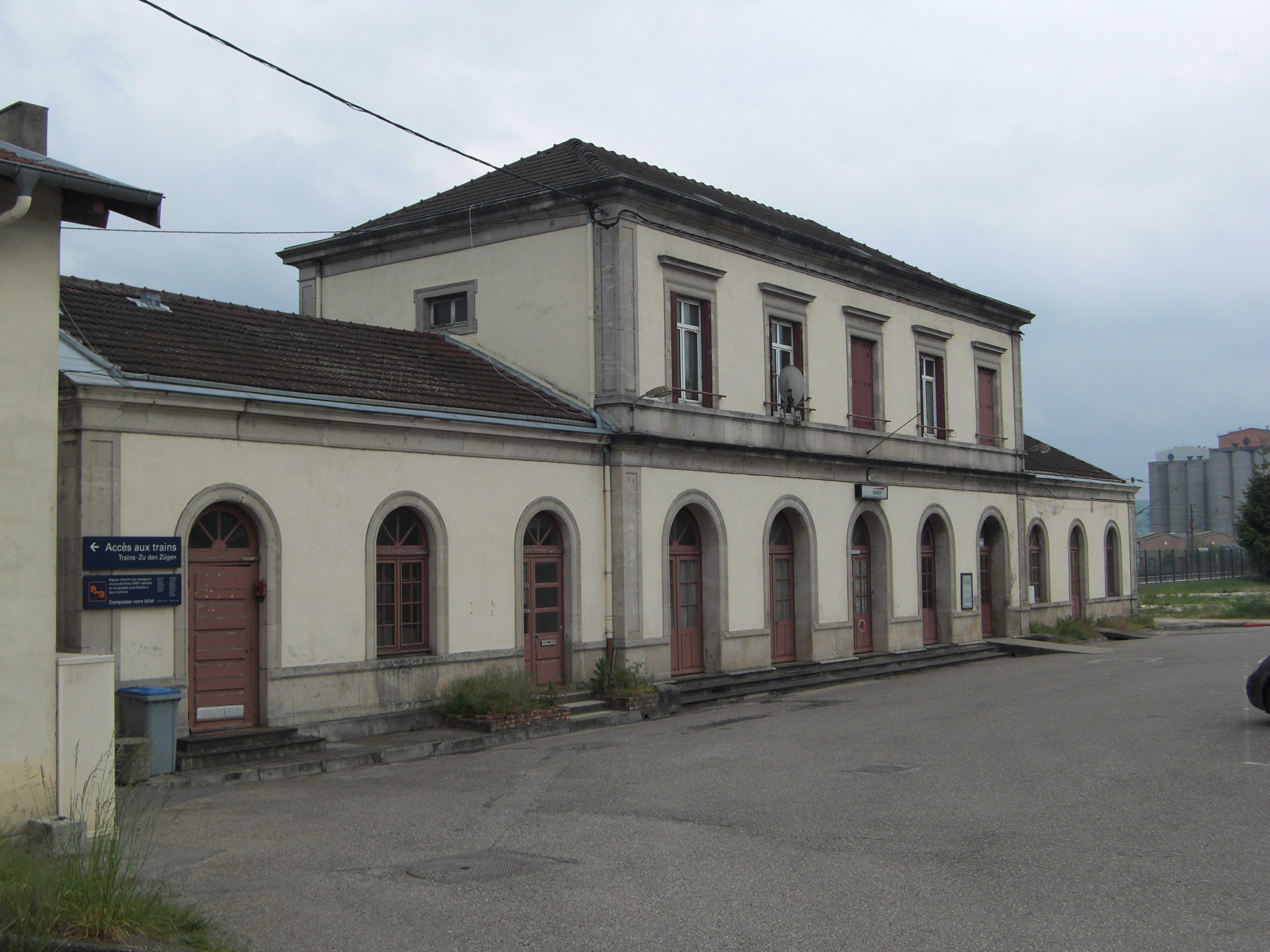 Frouard Railway Station